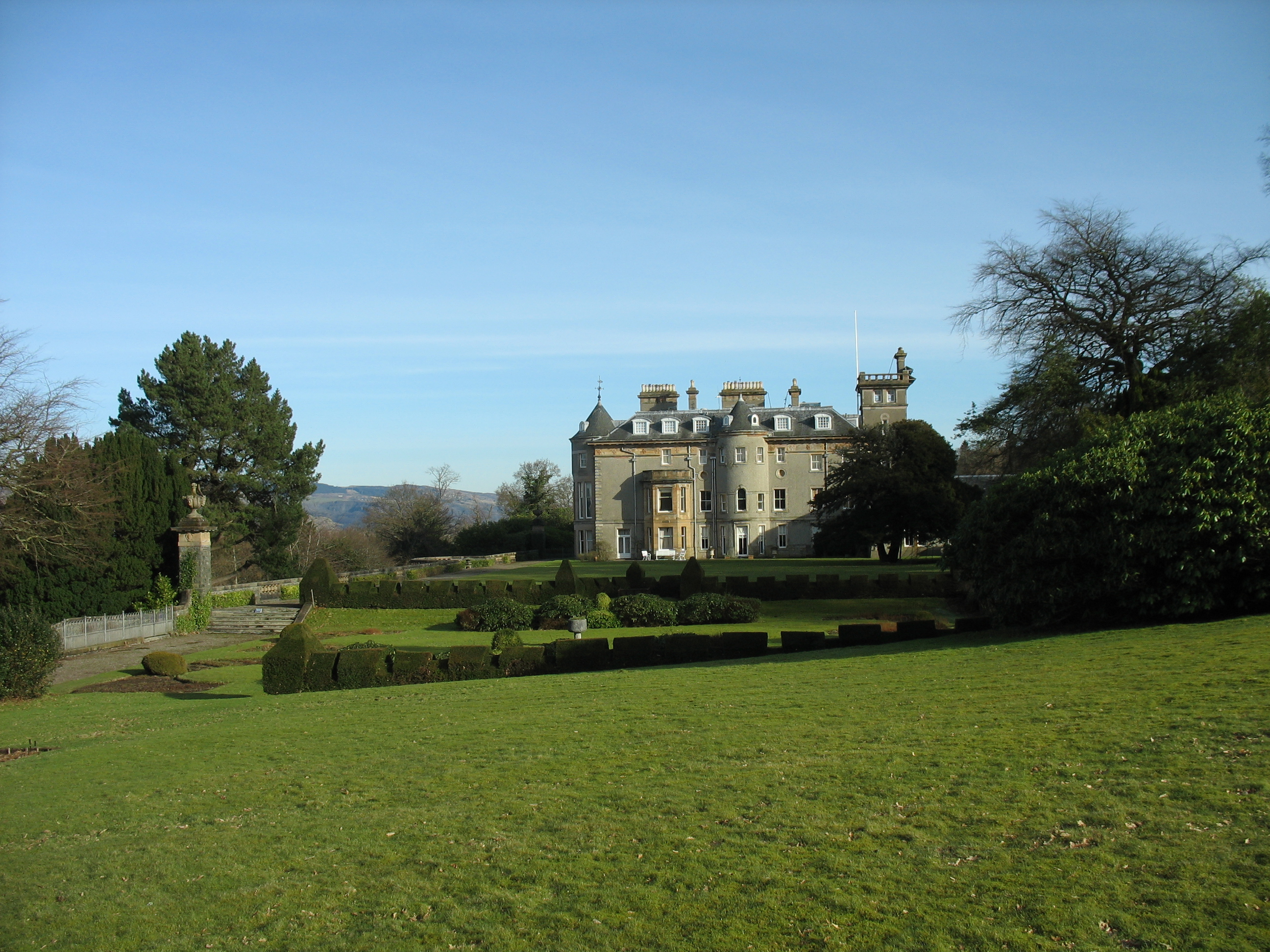 View of Finlaystone House and grounds seen from the western end